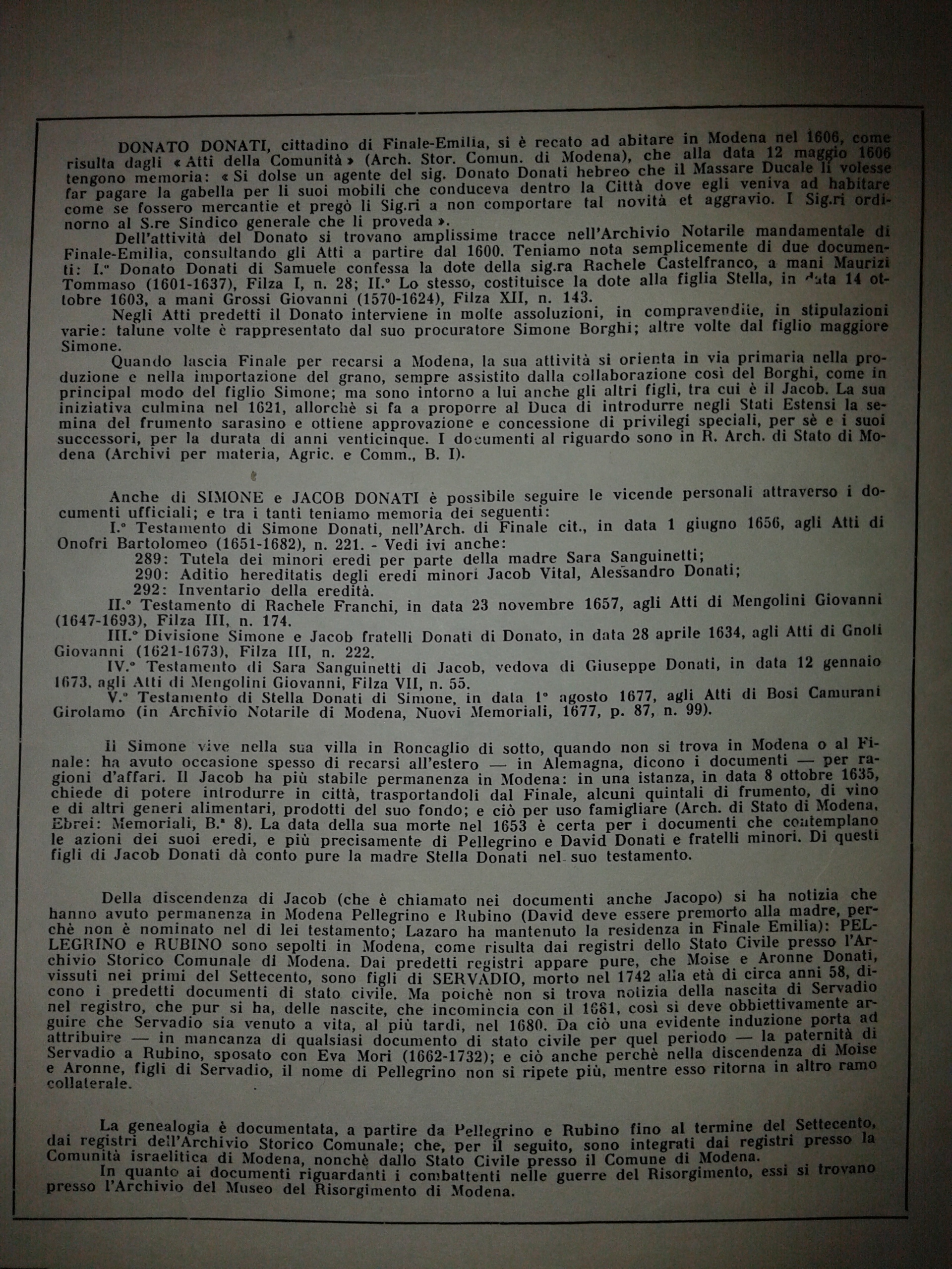 Notes to the family tree of the Donati family from Modena (Italy) from 1600 to 1900